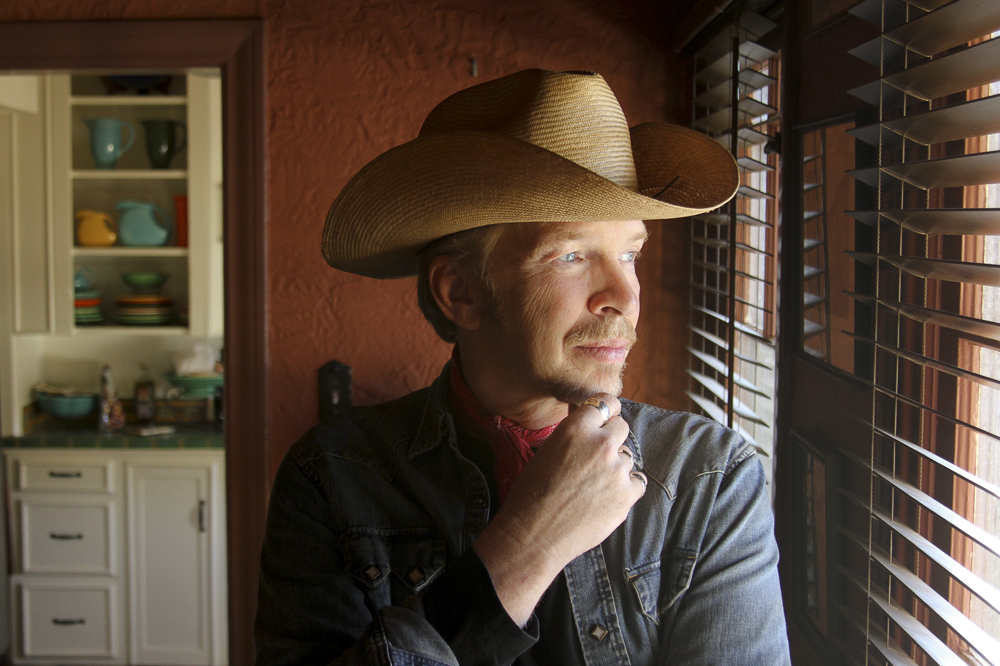 Promo shot taken for 2011 album Eleven Eleven